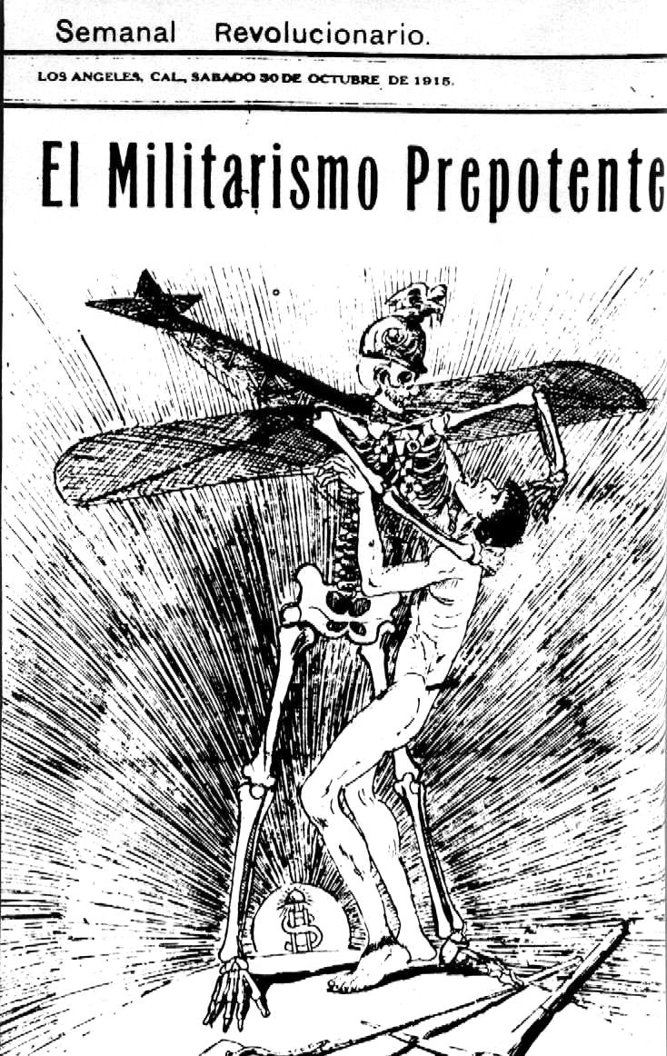 Arrogant militarism, engraved by Nicolas Reveles Regeneration published in No. 210. Positive image as originally published. The image is cropped and does not appear complete. A more detailed version of this image can be found in Volume IV Regeneration, No. 210. AE-RFM.